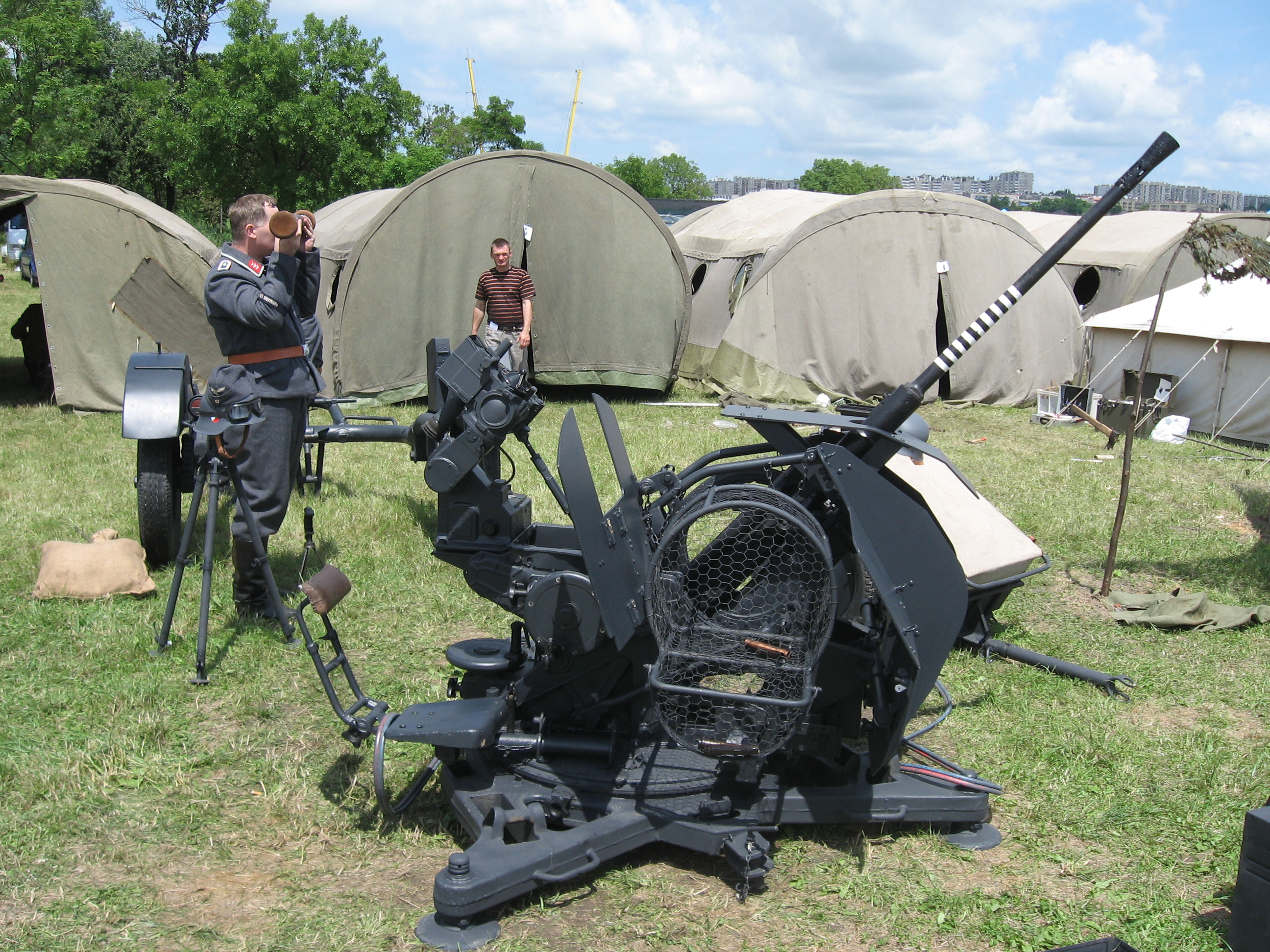 FlaK 38 anti-aircraft gunh during the VII Aircraft Picnic in Kraków.